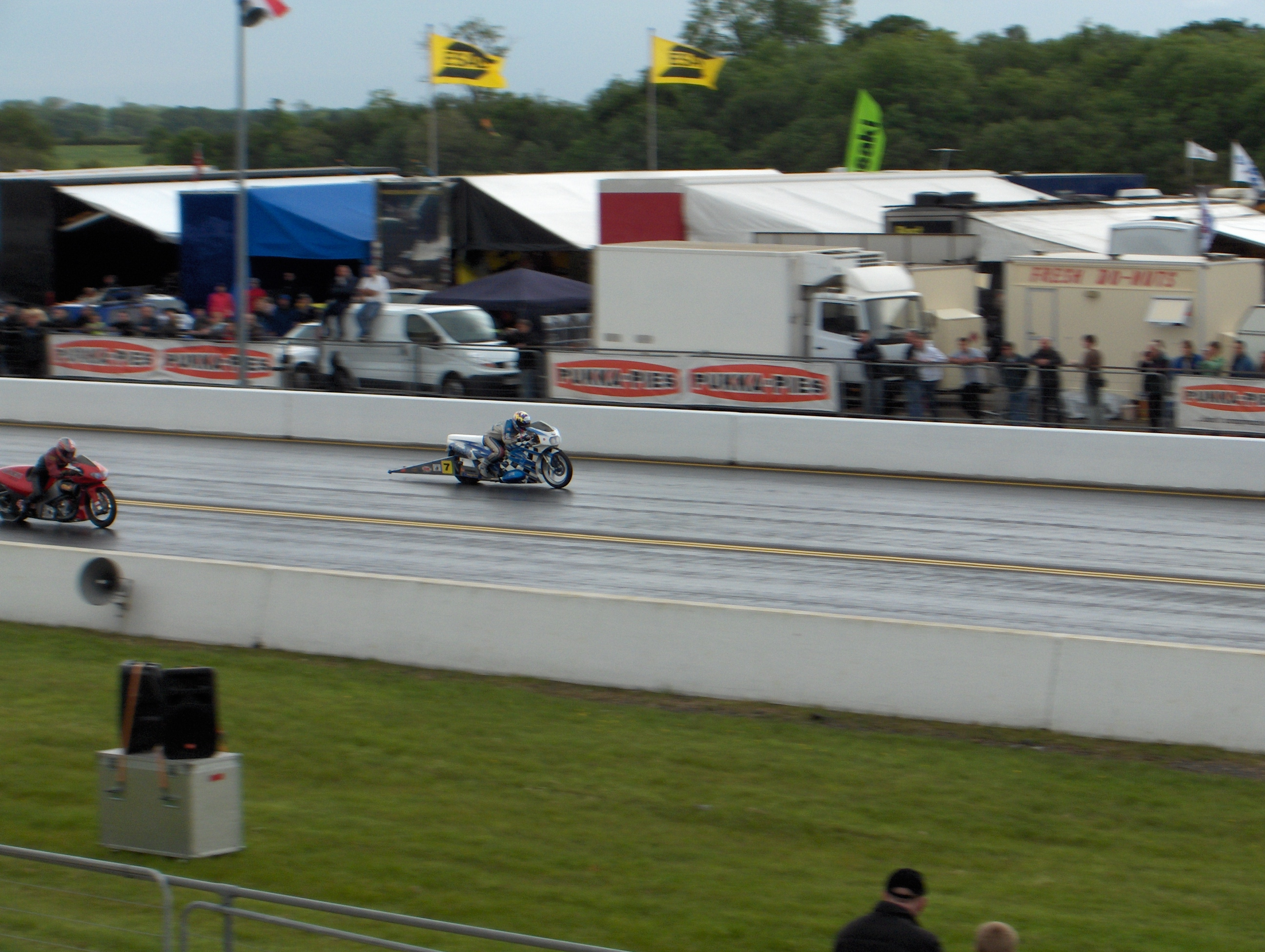 Pro Stock Bike taken at the FIA Main Event at Santa Pod 2007